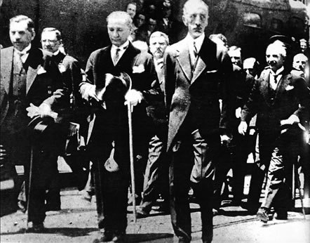 Mustafa Kemal Atatürk, the first president of the Republic of Turkey with Faisal I of Iraq.